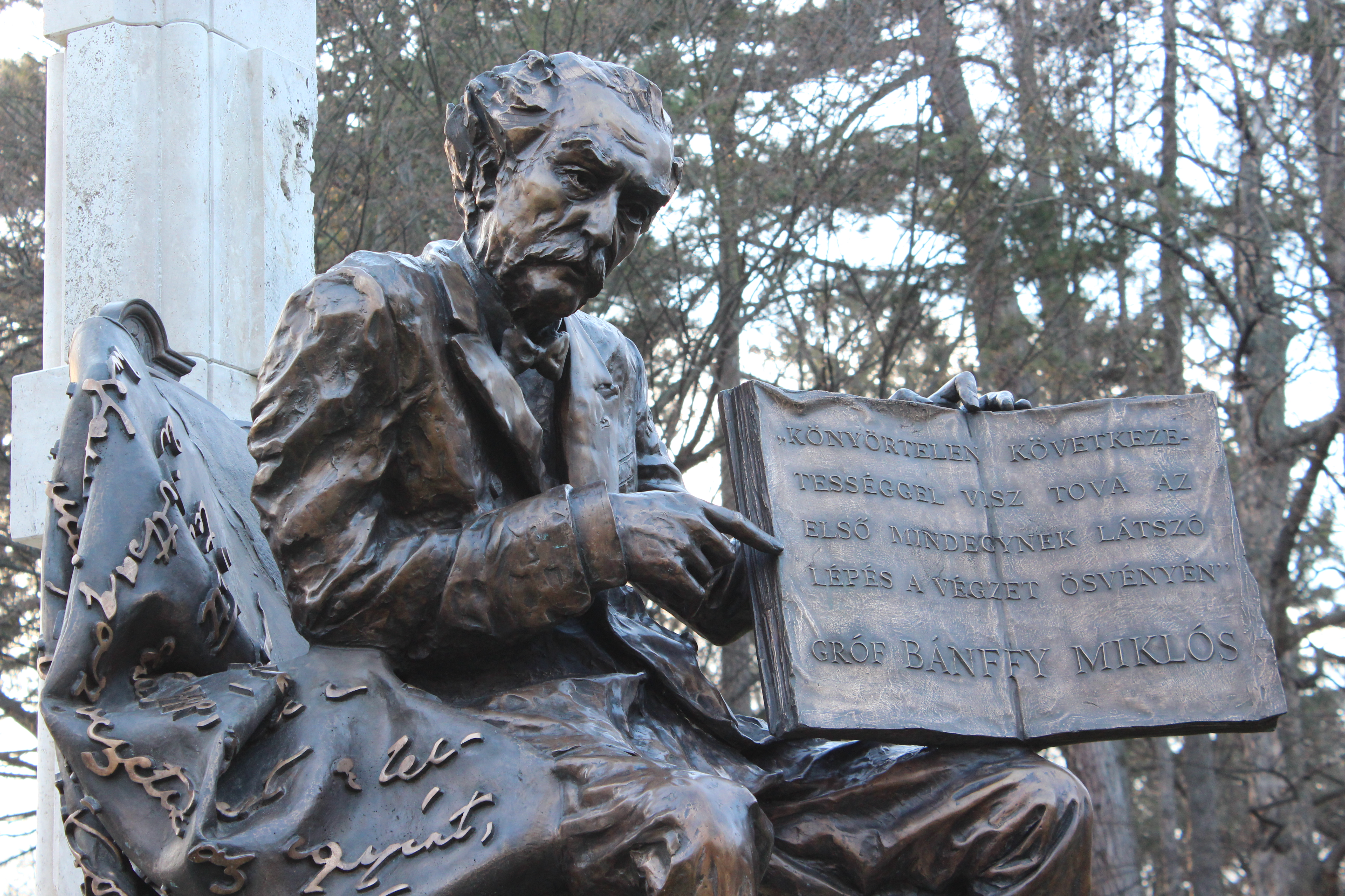 Statue of Miklós Bánffy (Sopron, Hungary). Sculptor: Péter Párkányi Raab. Inaugurated: 2013-12-14.